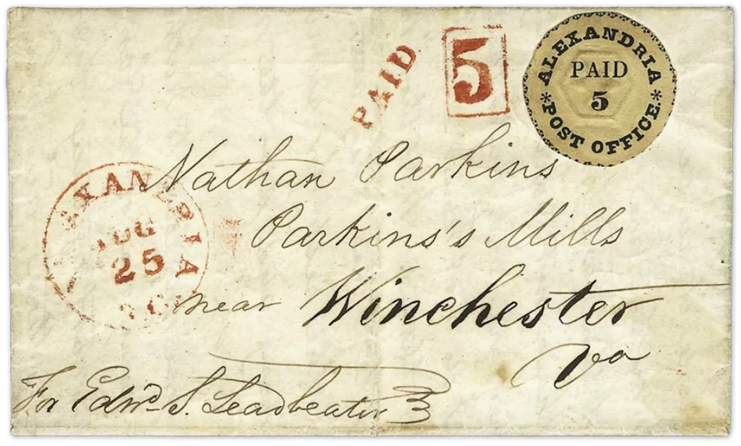 Alexandria 5 Cover